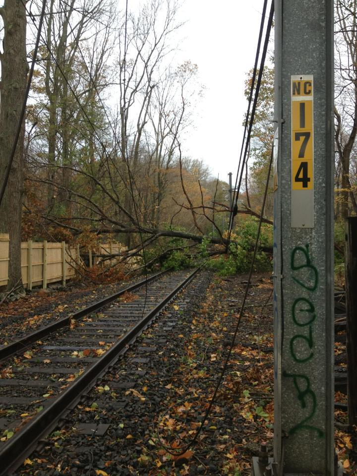 At first light Tuesday, Metro-North dispatched diesel-powered patrol trains on all three lines, Hudson, Harlem and New Haven, to inspect the tracks and remove trees along the way. Carrying track workers with chain saws, signal maintainers and power department personnel, the trains made slow progress as they encountered numerous trees snapped and lying across tracks and hung up in the overhead catenary wires that power the New Haven Line. In a some cases, the wires were town down. Elsewhere, heavy trees have crushed the third rails that power the Hudson and Harlem lines. On a positive note, shops and yards in New Haven and Stamford appeared to have been unscathed by the storm.